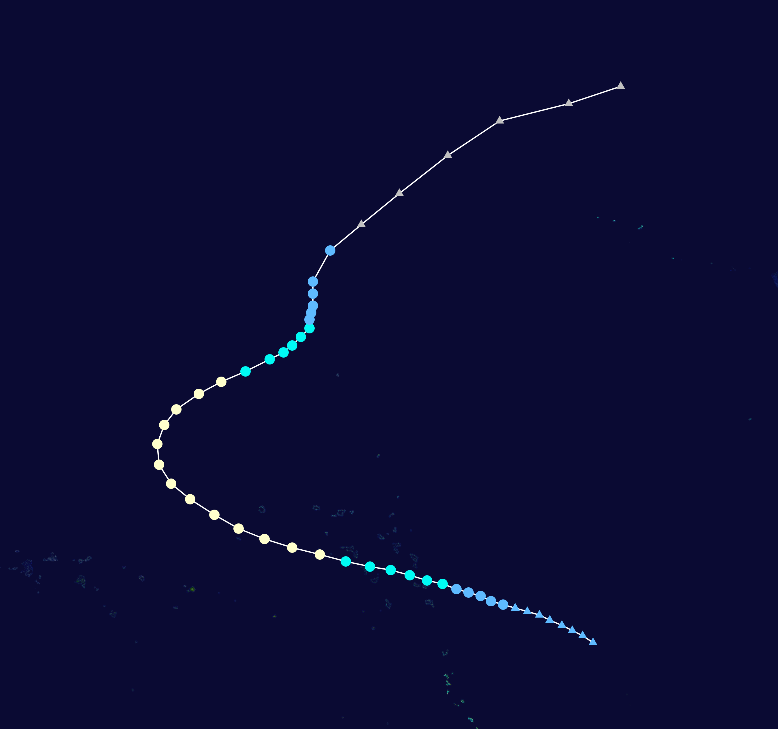 Track map of Tropical Storm Zelda of the 1991 Pacific typhoon season. The points show the location of the storm at 6-hour intervals. The colour represents the storm's maximum sustained wind speeds as classified in the Saffir–Simpson scale (see below), and the shape of the data points represent the nature of the storm, according to the legend below. Saffir–Simpson scale Tropical depression≤38 mph≤62 km/h Category 3111–129 mph178–208 km/h Tropical storm39–73 mph63–118 km/h Category 4130–156 mph209–251 km/h Category 174–95 mph119–153 km/h Category 5≥157 mph≥252 km/h Category 296–110 mph154–177 km/h Unknown Storm type Tropical cyclone Subtropical cyclone Extratropical cyclone / Remnant low / Tropical disturbance / Monsoon depression